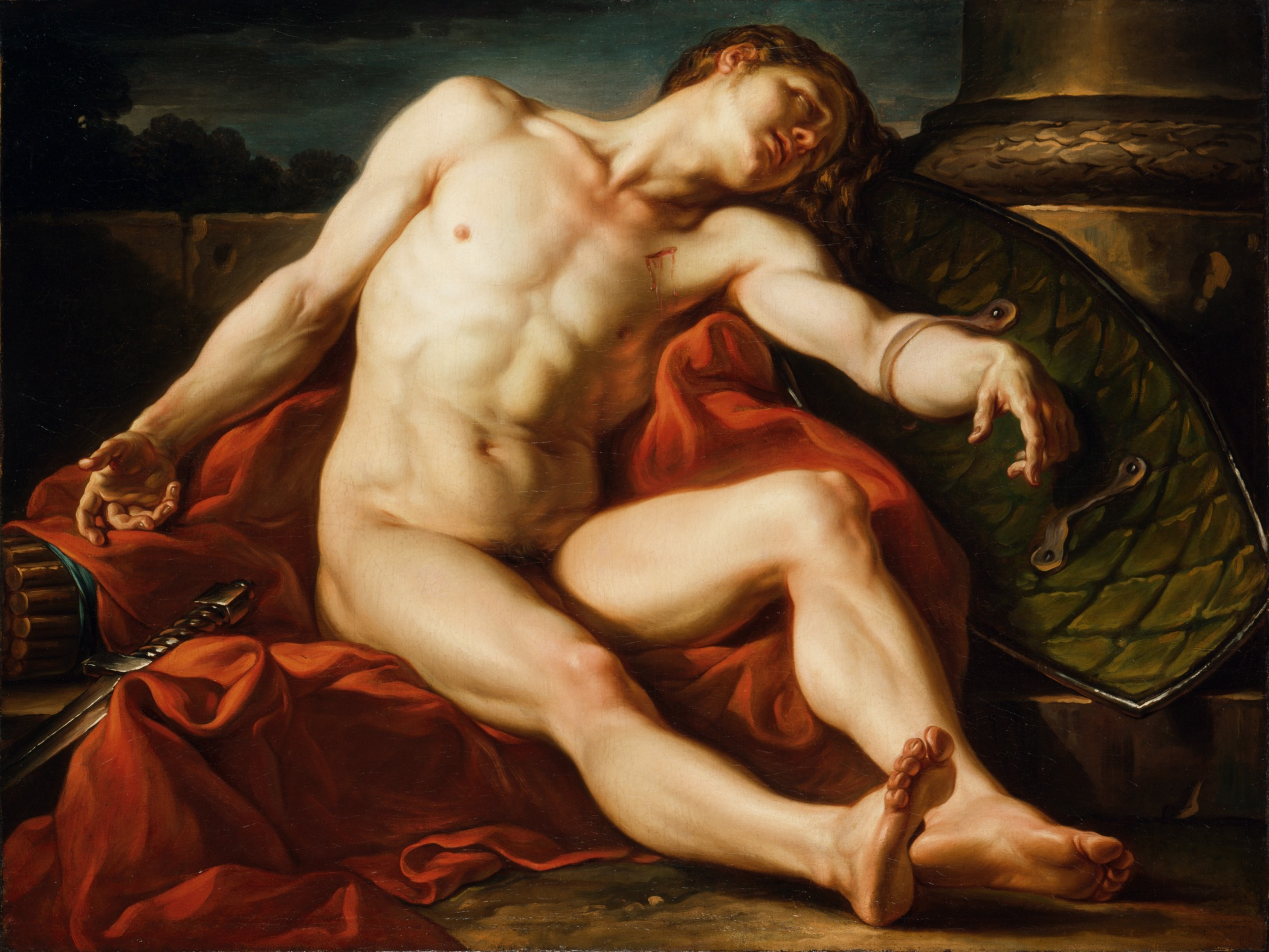 France, 1773 Paintings Gift of The Ahmanson Foundation (M.83.169) European Painting